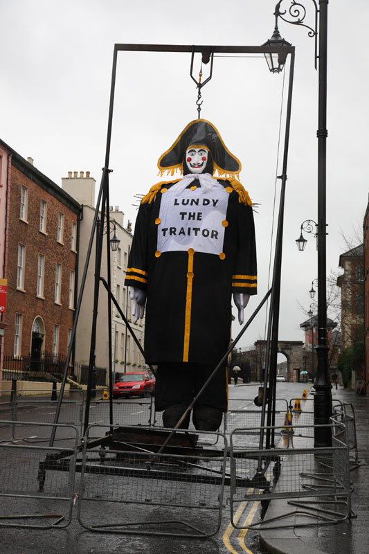 Effigy of Lt Col Lundy in Londonderry 2018, prior to being burned by the Apprentice Boys